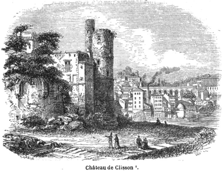 "Le château de Clisson", Clisson's castle, old grave from "Histoire de France" by V. Duruy, 1st volume, Paris, Hachette, 1864, page 433.